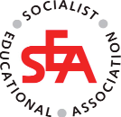 Logo of the Socialist Education Association.